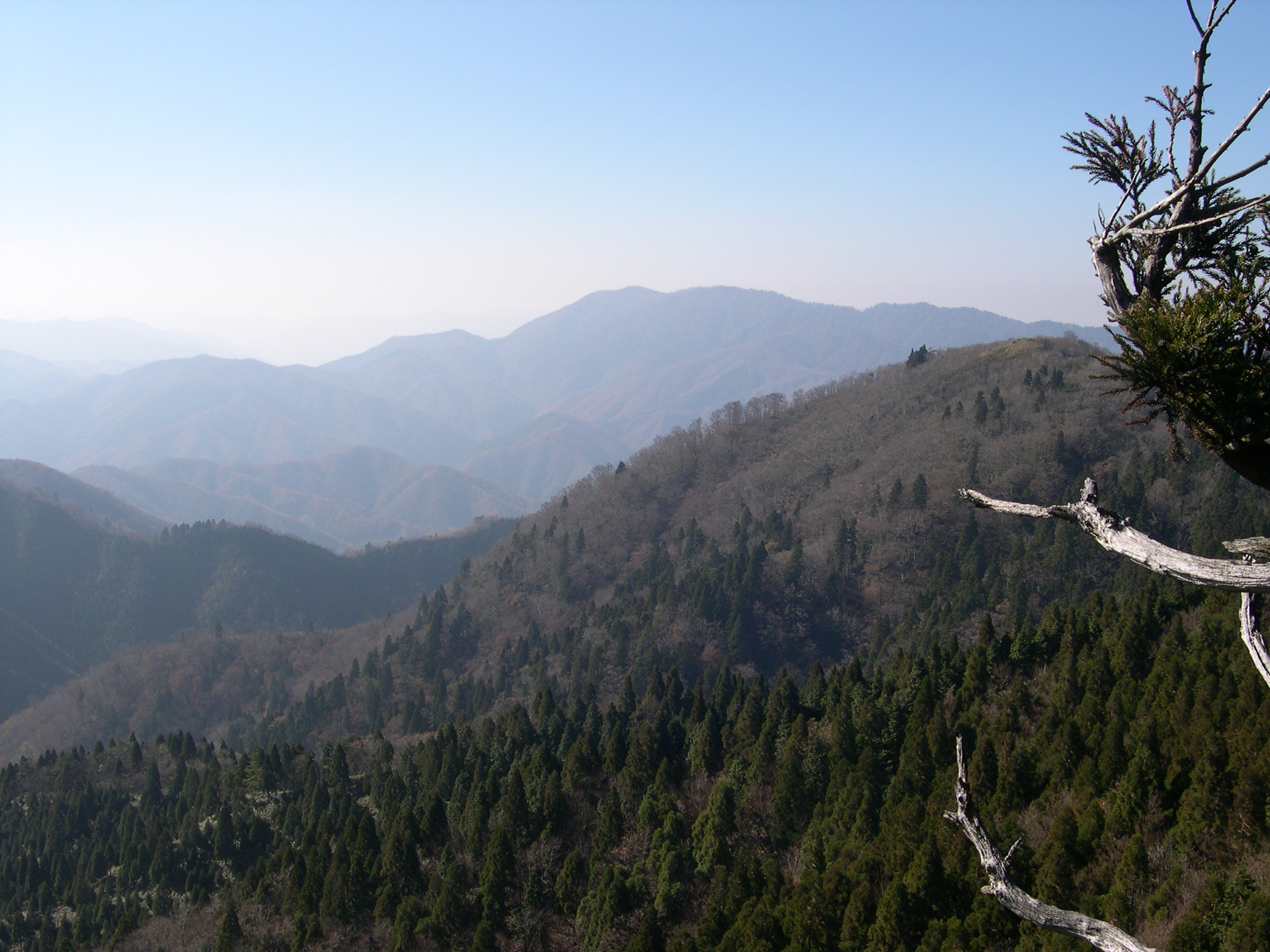 Azojiyama as seen from the ENE. Taken from the Daijingadake.